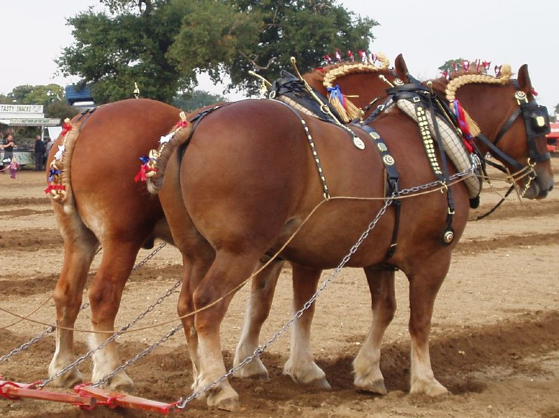 A pair of Suffolk Punch horses, harnessed for a plowing demonstration.